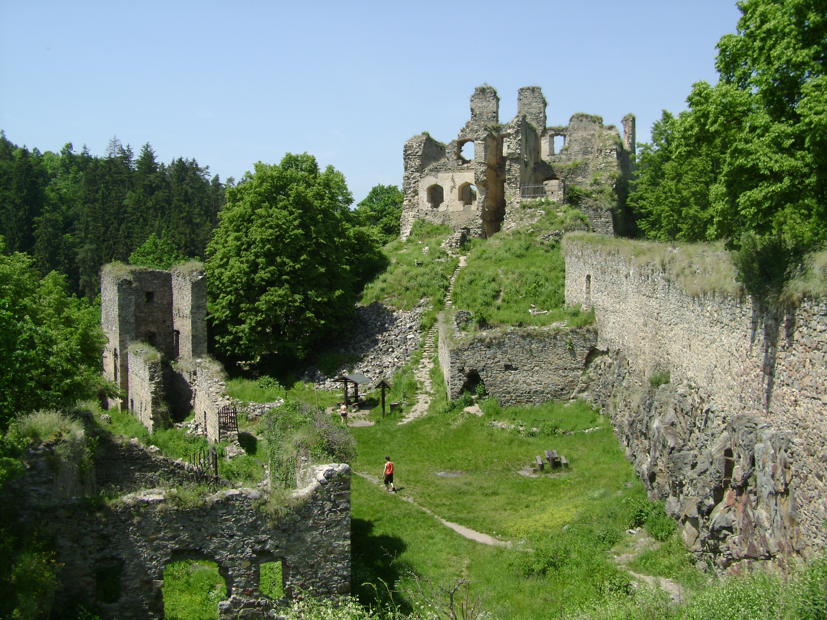 Dívčí kámen Castle ruin near Křemže, Český Krumlov District, Czech Republic